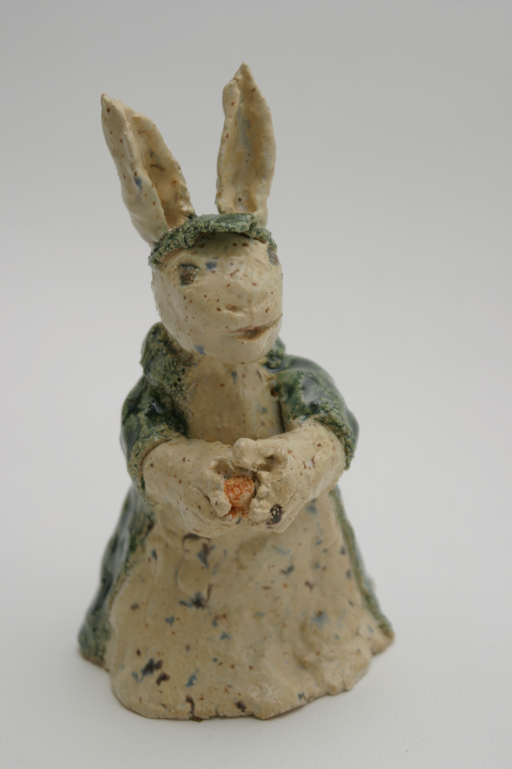 Rabbit made of clay